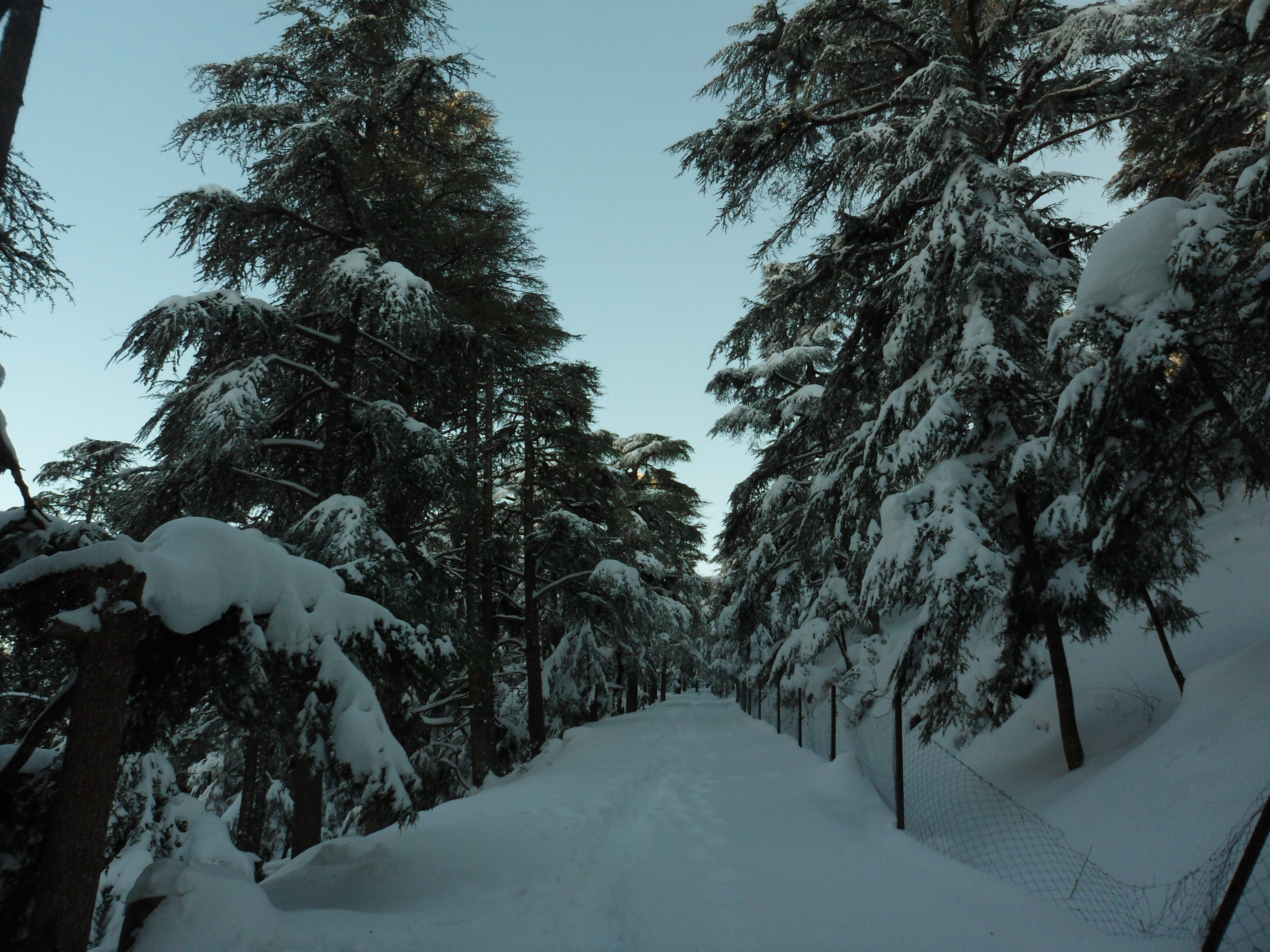 this place in located inside the forêst of the park , near the experimental plot ( Way to PARASOLE ).